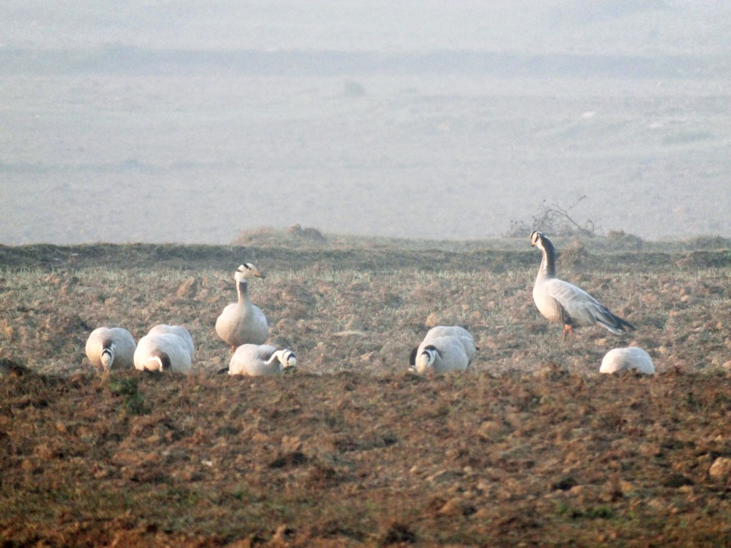 common bar headed geese in pong dam